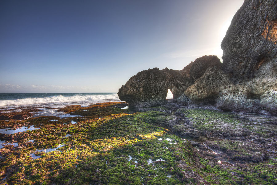 Daily HDR Blog | HDR One Magazine | Facebook | Twitter | Pinterest | Google+ Travel Diary Day 39 (My travel blog - Rachel could never be a criminal. When she’s passing through customs she’s always got a suspicious look on her face. She’s trying too hard to not look like a terrorist. Her face goes red and she’s got a weird, Joker-style smile. We had four hours to kill before check in. The battery died on my laptop. I told her I’d look for a power outlet. When I returned she accused me of taking too long. Apparently it should in no way take 15 minutes to walk the length of the airport and back. I confessed. I’d found a TV screen and was watching the football highlights. I thought I’d timed it just right so that she wouldn’t notice. I even came back pretending to be out of breath. She’s getting better at detecting things. I saw an old man today having a pee in the urinal (I wasn’t watching him – I just noticed him. Let that be known) today. After he’d finished he pressed the flusher button on the top, put his hands into the urinal and washed his hands in the running water. We are 45 minutes away from jumping on our 19th flight this year. Rachel used to believe that airplane seats were made to absorb people’s bottom gas. She also convinced me of this since I hadn’t recalled smelling anything sinister on a plane before. I was recently embarrassed to discover that it wasn’t true. Thanks for nothing Rachel! Today’s Photo – Another natural halo As I mentioned the other day, I love natural halos in HDR. It’s the detail you can show in an otherwise blackened area that peaks my interest. Sometimes these can be mistaken for uncontrolled halos, as a reader of my blog once mentioned. This was taken at Ngobaran beach just north of Jogjakarta with some very generous Indonesian friends who offered to drive us all the way here for a photo session.